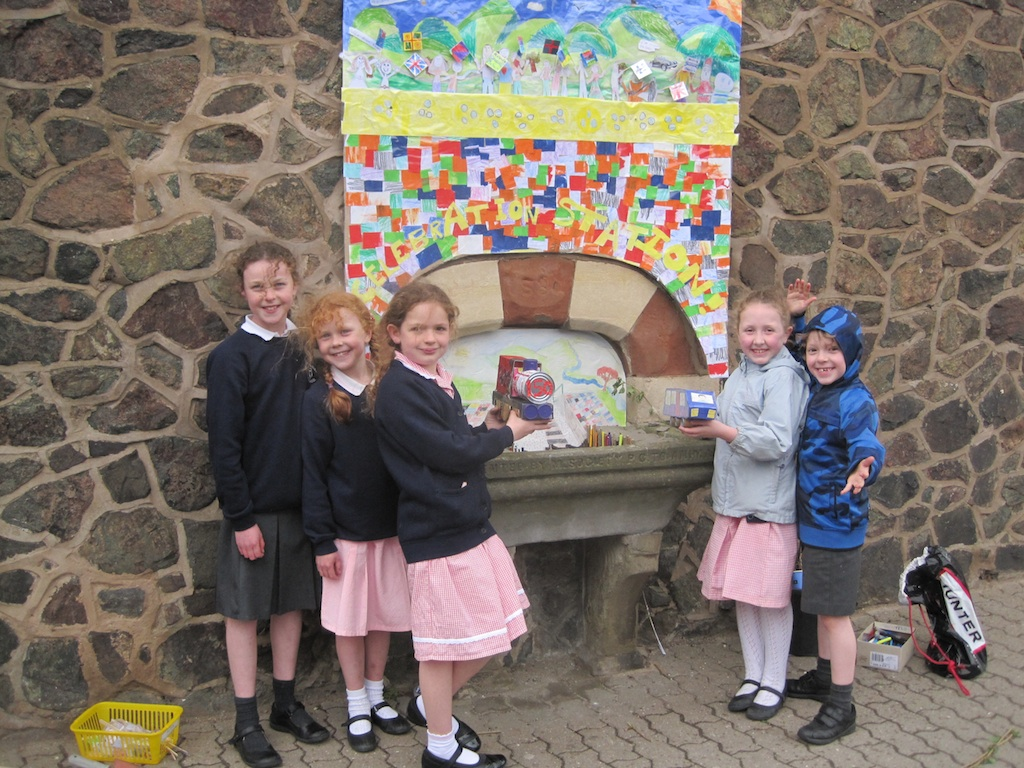 The MSPCA (Malvern Society for the Prevention of Cruelty to Animals) drinking fountain on Great Malvern railway station, Great Malvern, Worcestershire, England. The theme of its 2010 dressing by pupils from Malvern Parish Primary School was: celebrating 150 years of the railway connecting Malvern to the outside world. More details.